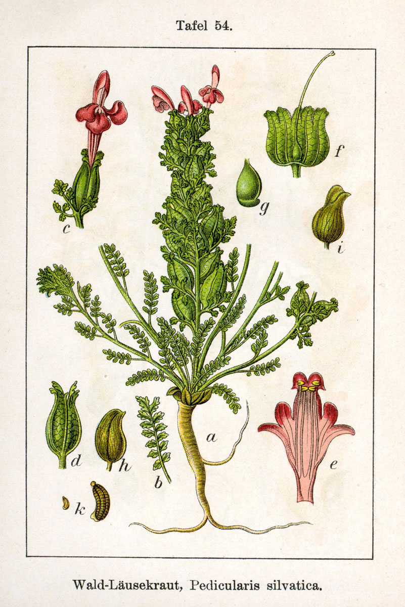 Pedicularis sylvatica L. Original Description Wald-Läusekraut, Pedicularis sylvatica